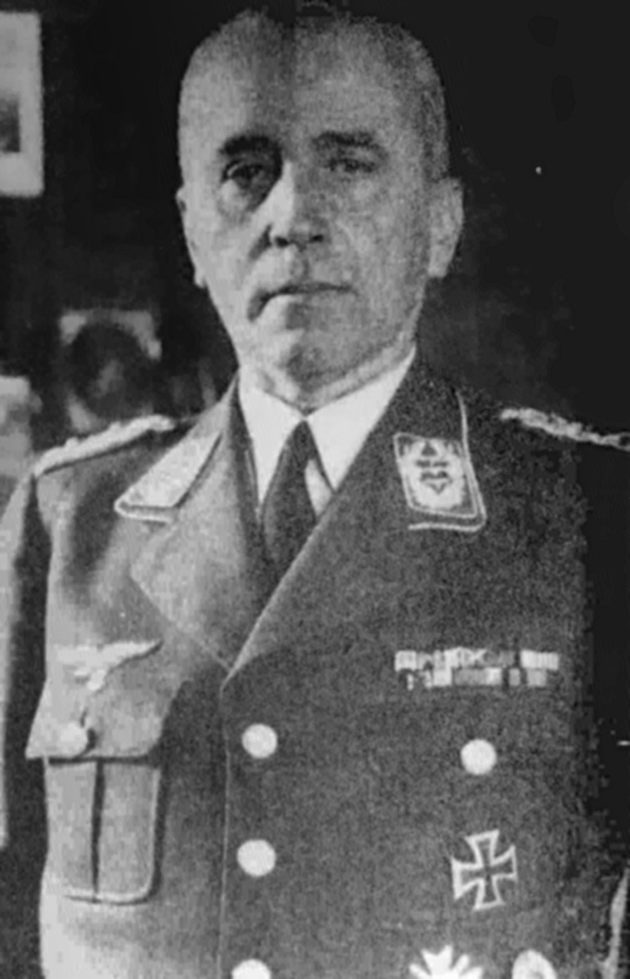 Kommandant of Stalag Luft III, Oberst Friedrich Wilhelm von Lindeiner-Wildau, photo originally from Nazi records and copyright-free, by virtue of treaty by the Allied Powers and their successors in title